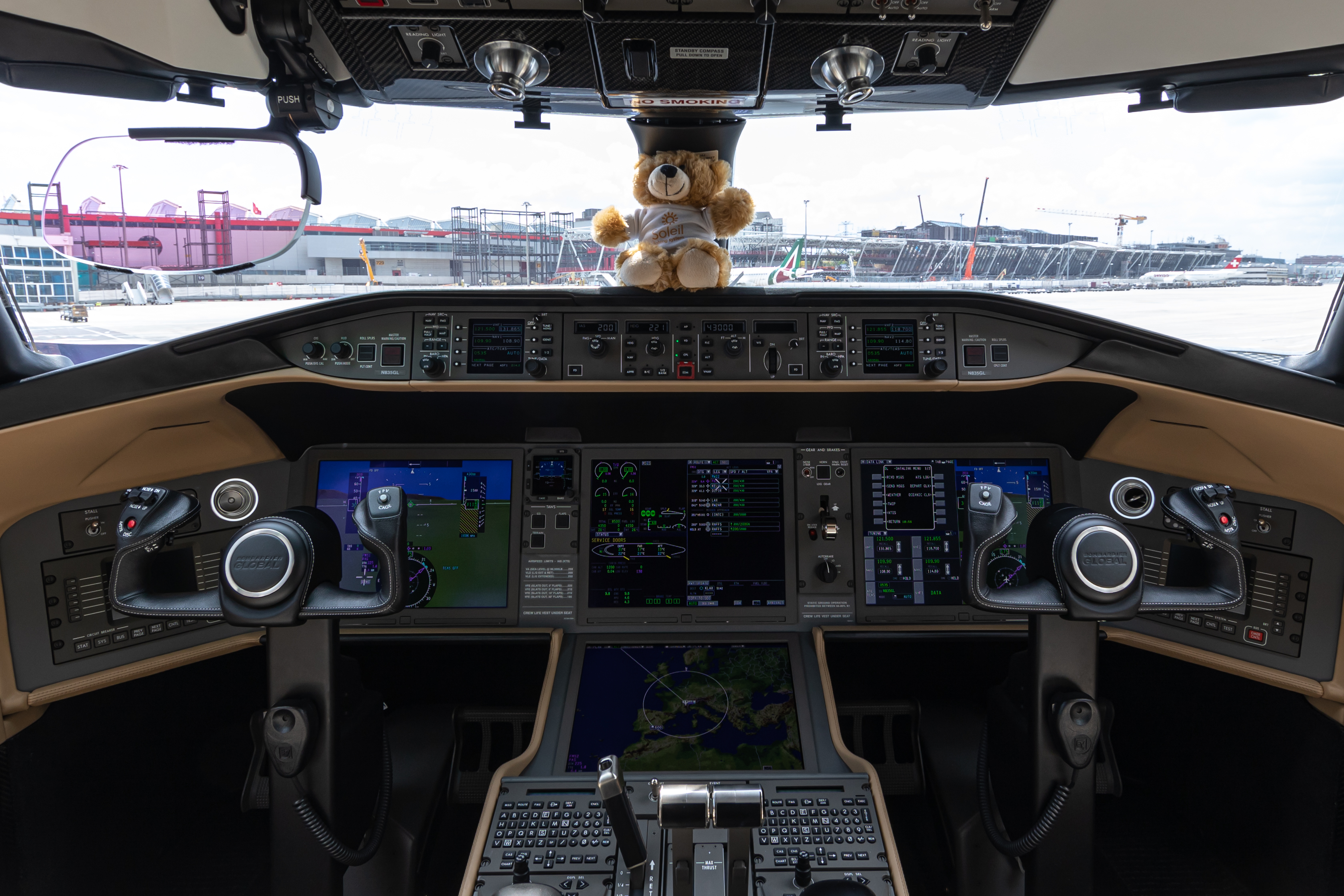 Cockpit of a Bombardier Global 6000 at EBACE 2019, Palexpo, Switzerland